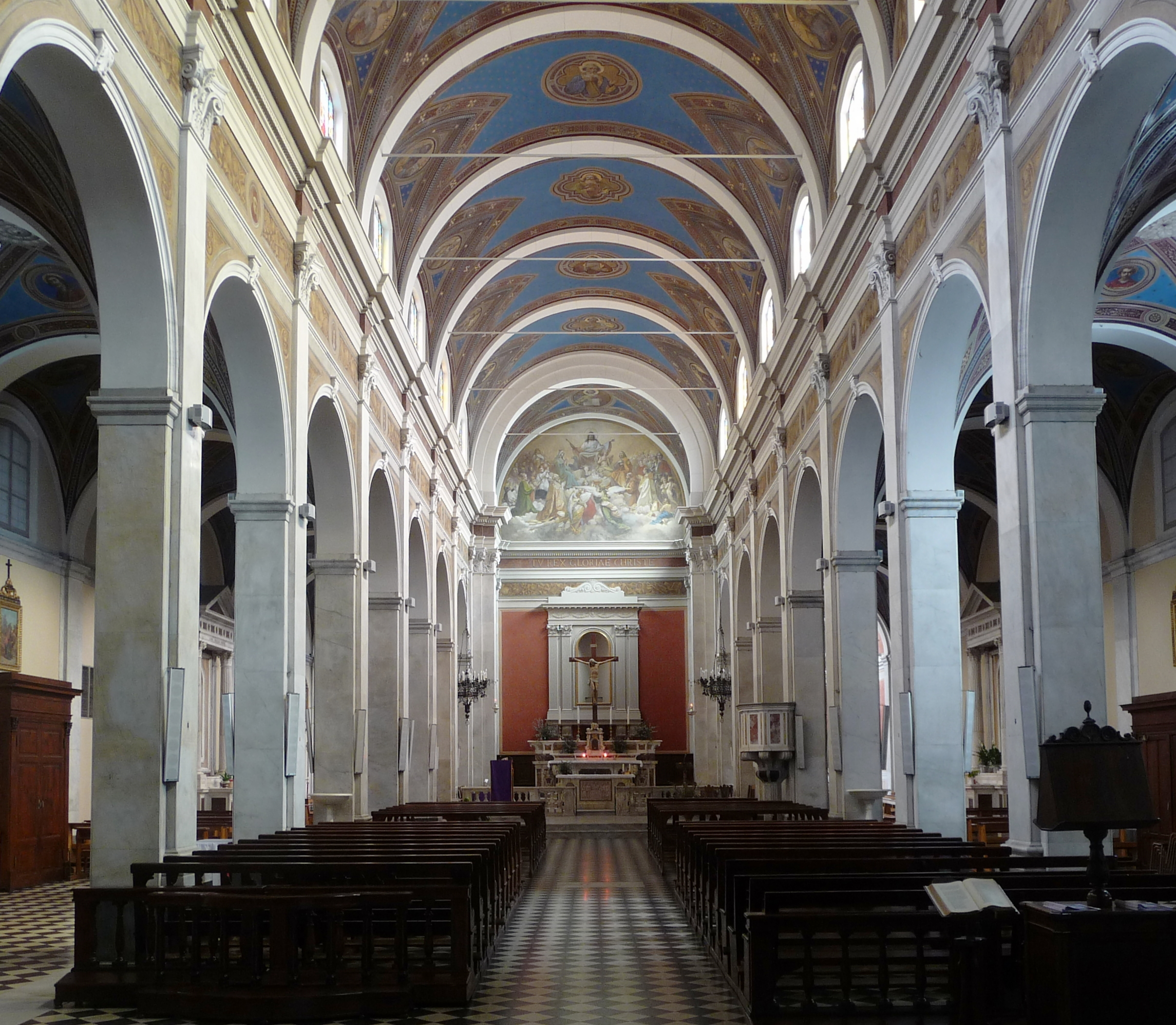 Church "San Giusto", Porcari, Province Lucca, Tuscany, Italy